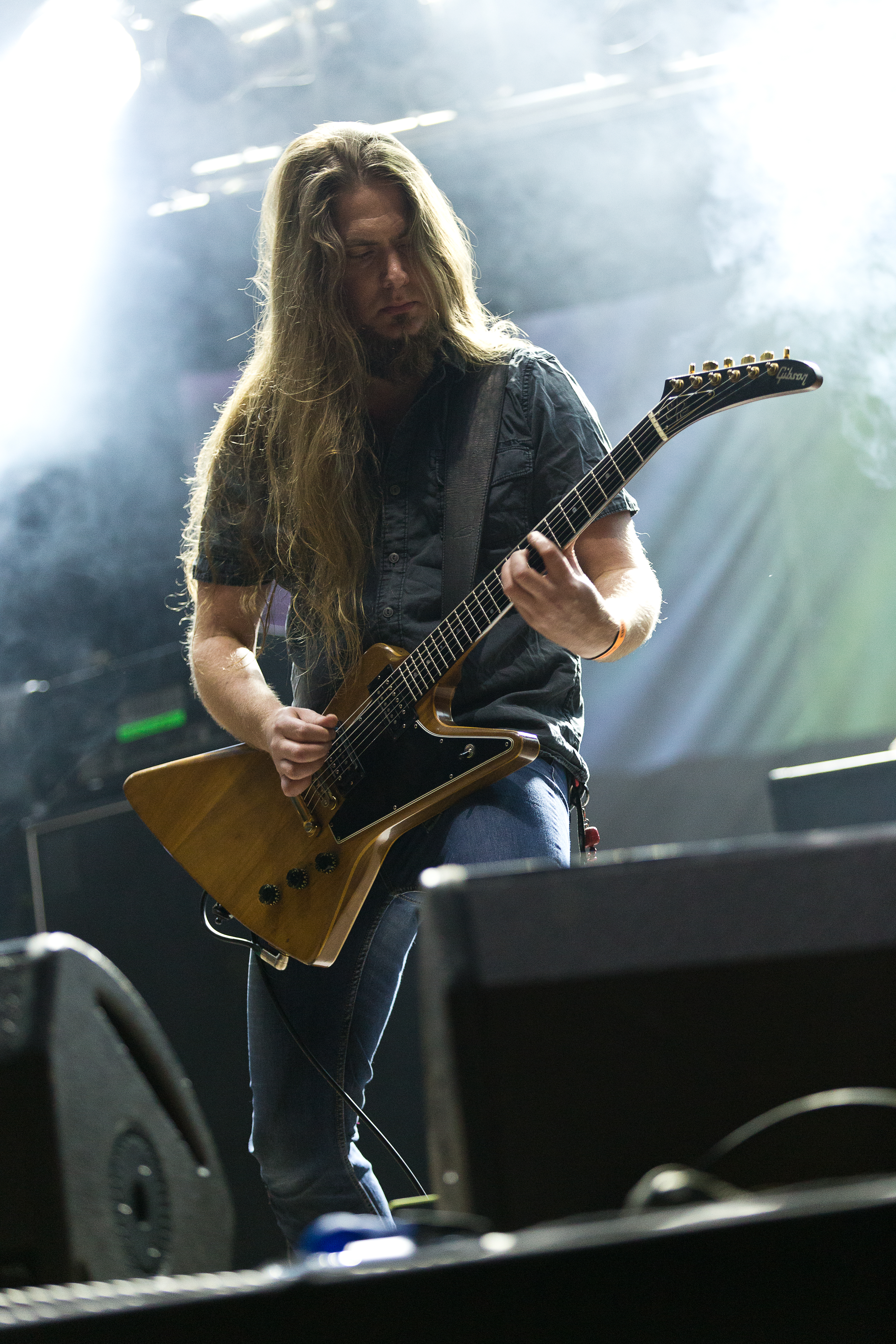 The English melodic death metal band Carcass at the Party.San Metal Open Air 2016 in Obermehler-Schlotheim/Germany.